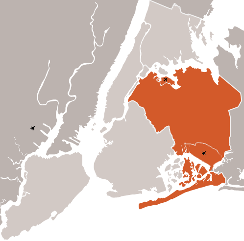 Location of Queens in New York City, including and showing its two airports and their boundaries.